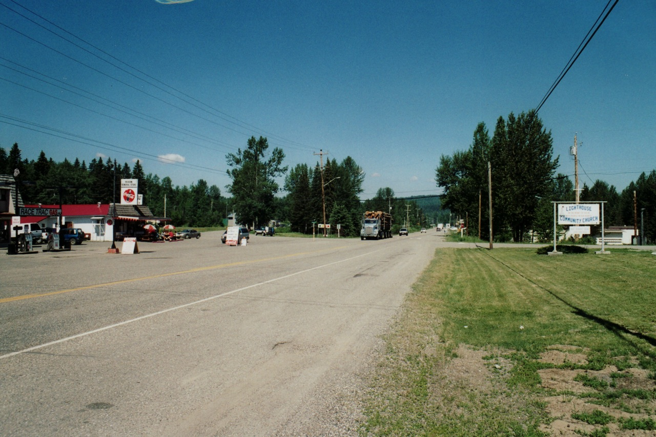 BC Highway 97 at Hixon